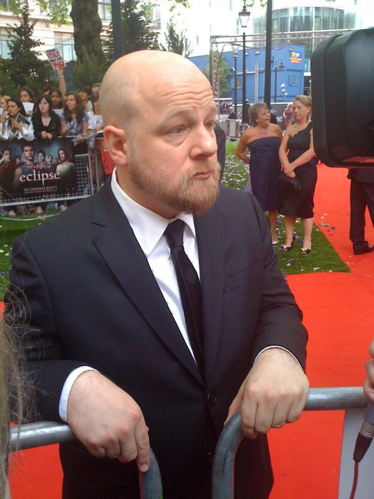 David Slade at the London Premiere of The Twilight Saga: Eclipse at Leicester Square.